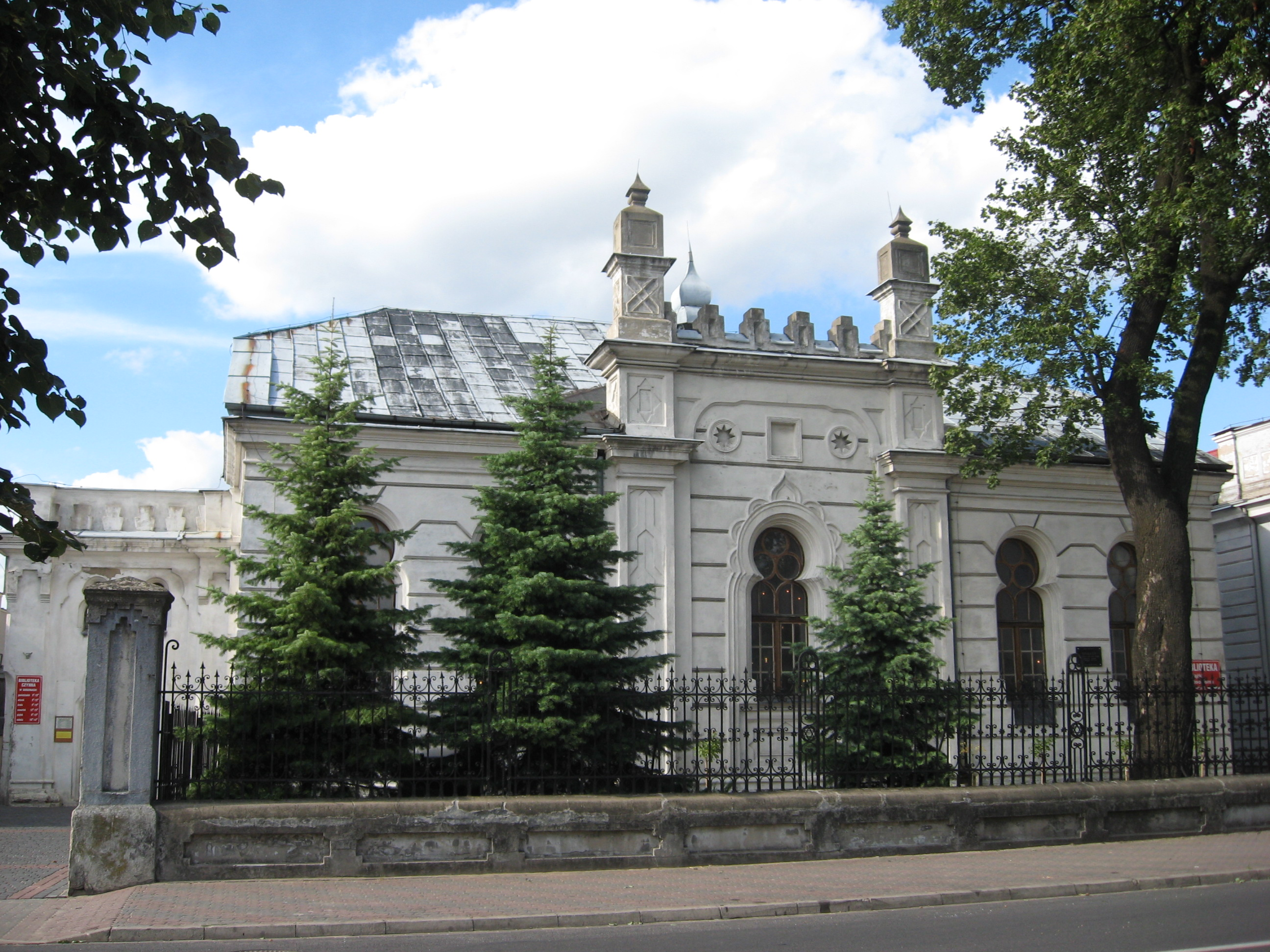 Konin - synagogue (south facade)